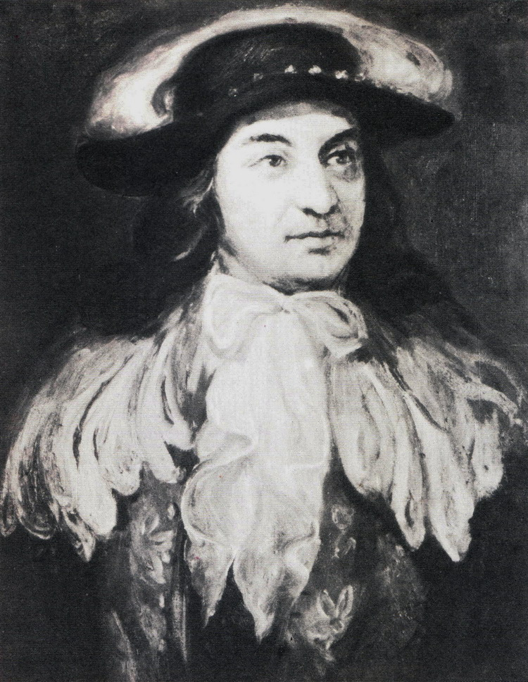 Israel Ori